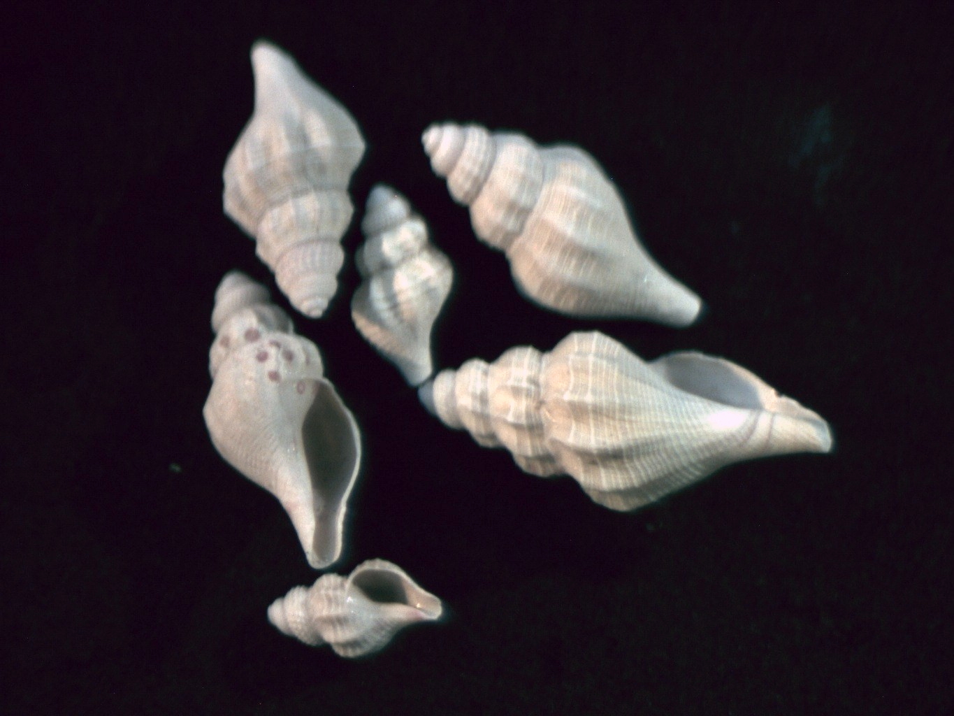 Bela nuperrima (Tiberi, 1855); family Mangeliidae